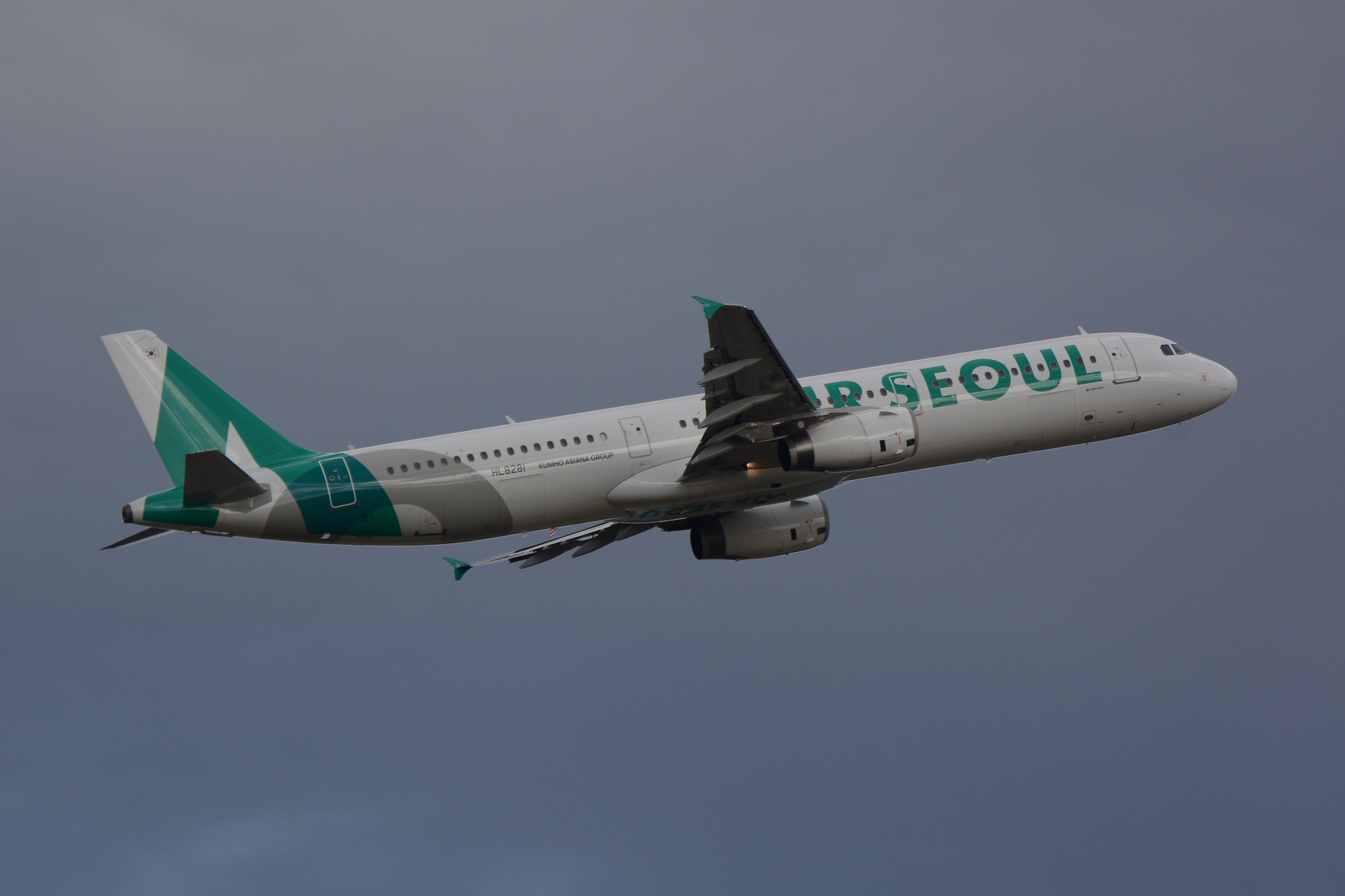 Air Seoul, Airbus A321-200 HL8281 NRT